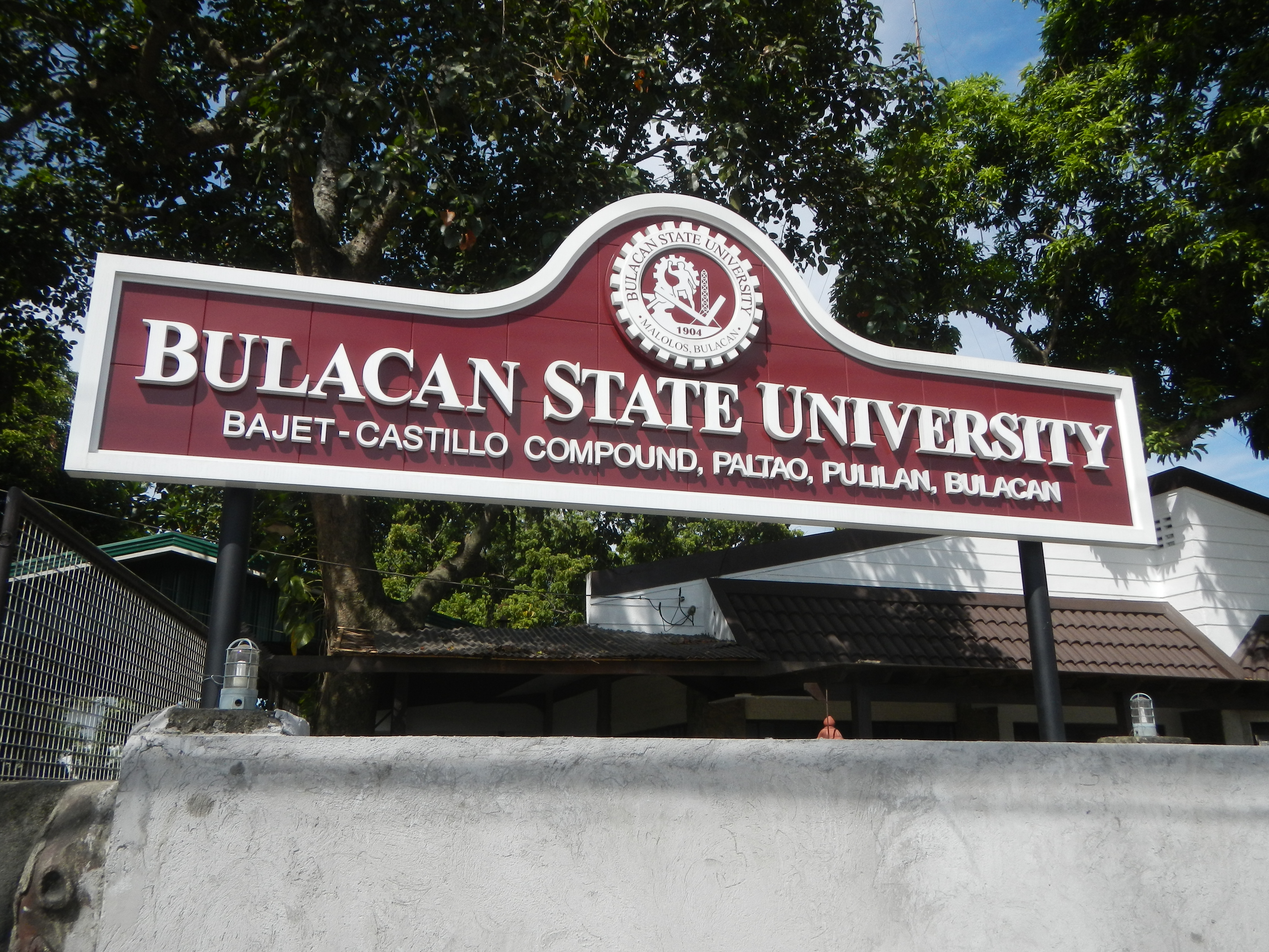 Bulacan State University Bajet-Castillo Compound in Barangay, Paltao [1], Pulilan, Bulacan, TJN Pasalubong Bakeshop (Pulilan, Bulacan) beside Cutcot, and Longos, Pulilan, Bulacan, (upon Angat River along Plaridel, Bulacan along the Pulilan-Calumpit Road connected by New Plaridel-Pulilan Bridge, K00 42+653 and from the Pan-Philippine Highway, also known as the Maharlika "Nobility/freeman" Highway or Asian Highway 26, in Maharlika Highway (Cagayan Valley Road, Baliuag-Pulilan-Guiguinto, Bulacan) in Jollibee and Massway Supermarket crossing, junction).